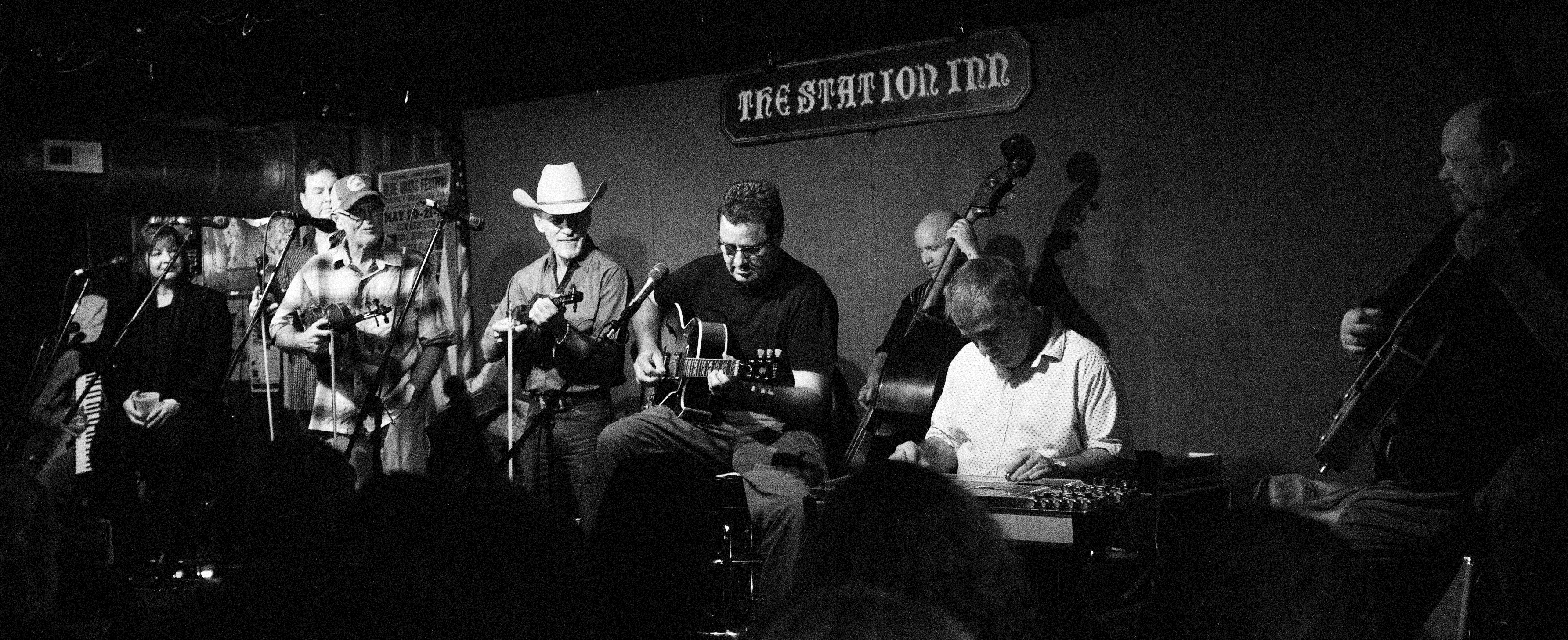 The Time Jumpers performing at the Station Inn in Nashville, Tennessee, United States